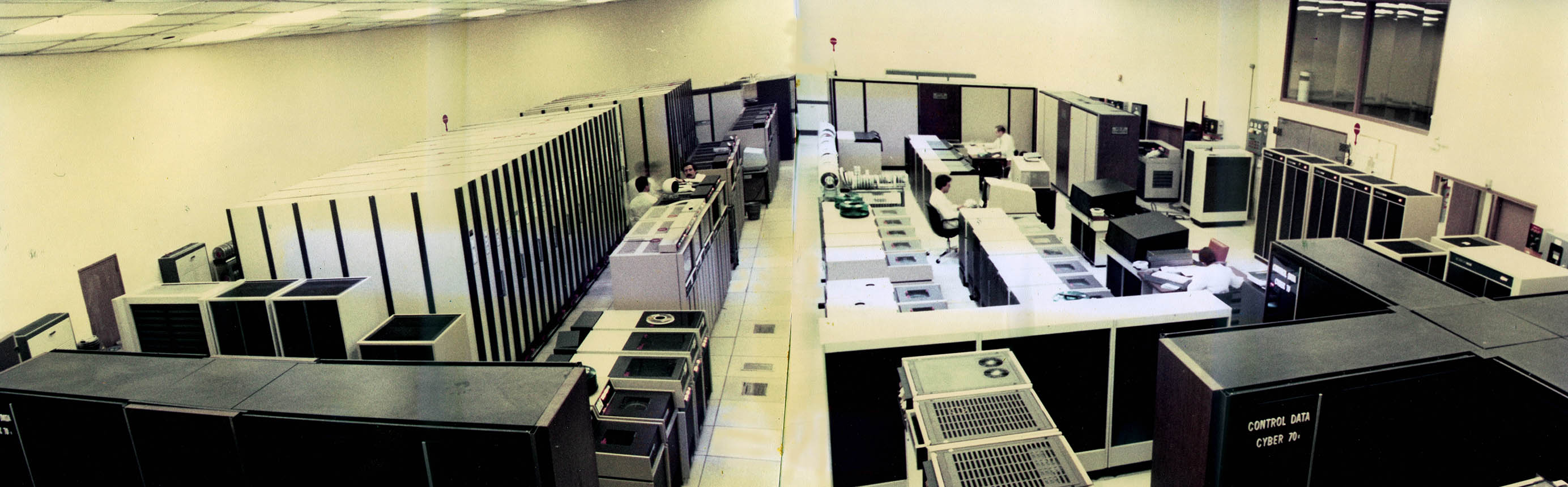 Data Center using 4 CDC Cyber computers